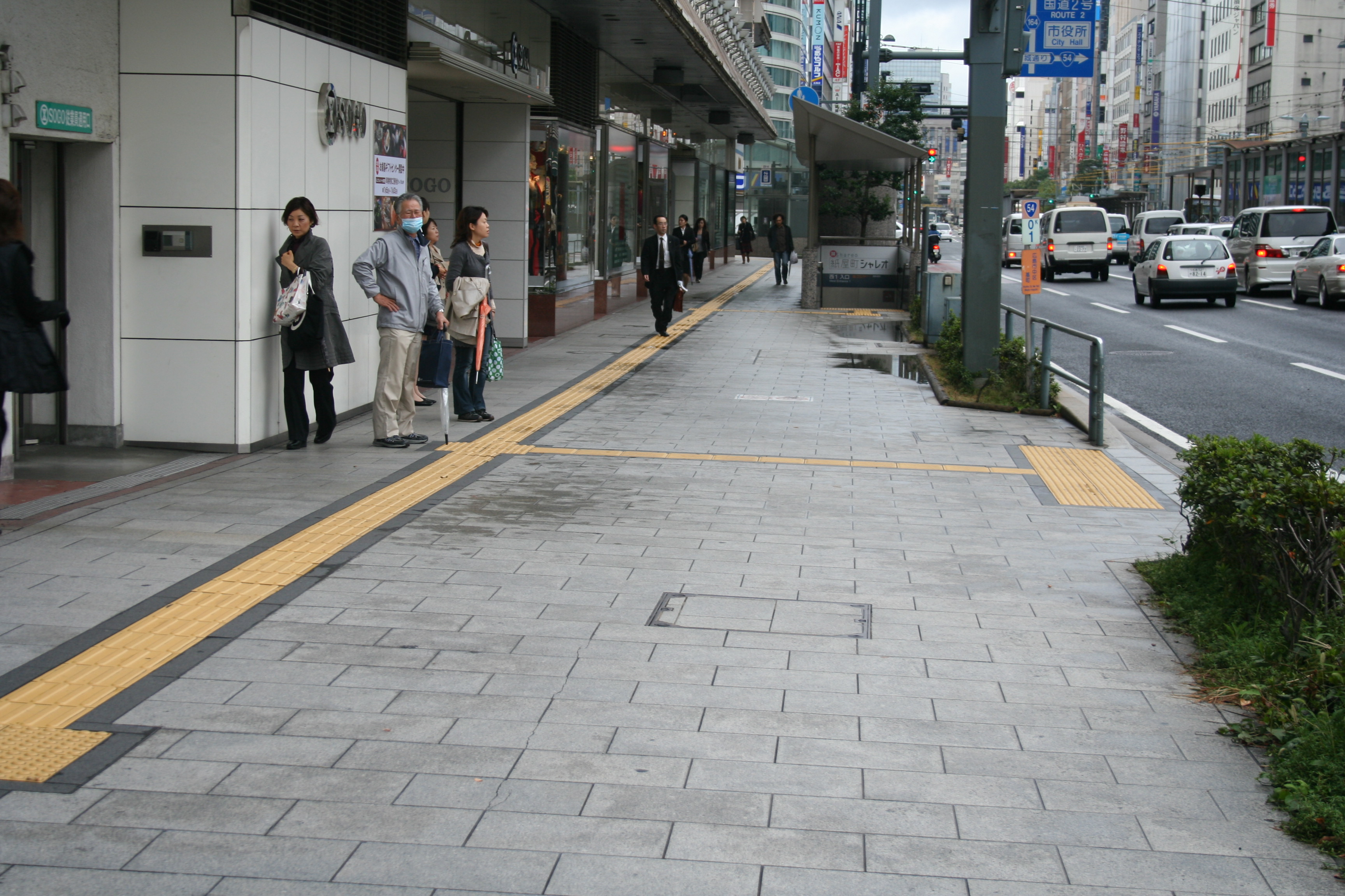 Yellow tactile pavings with intersection in Hiroshima.